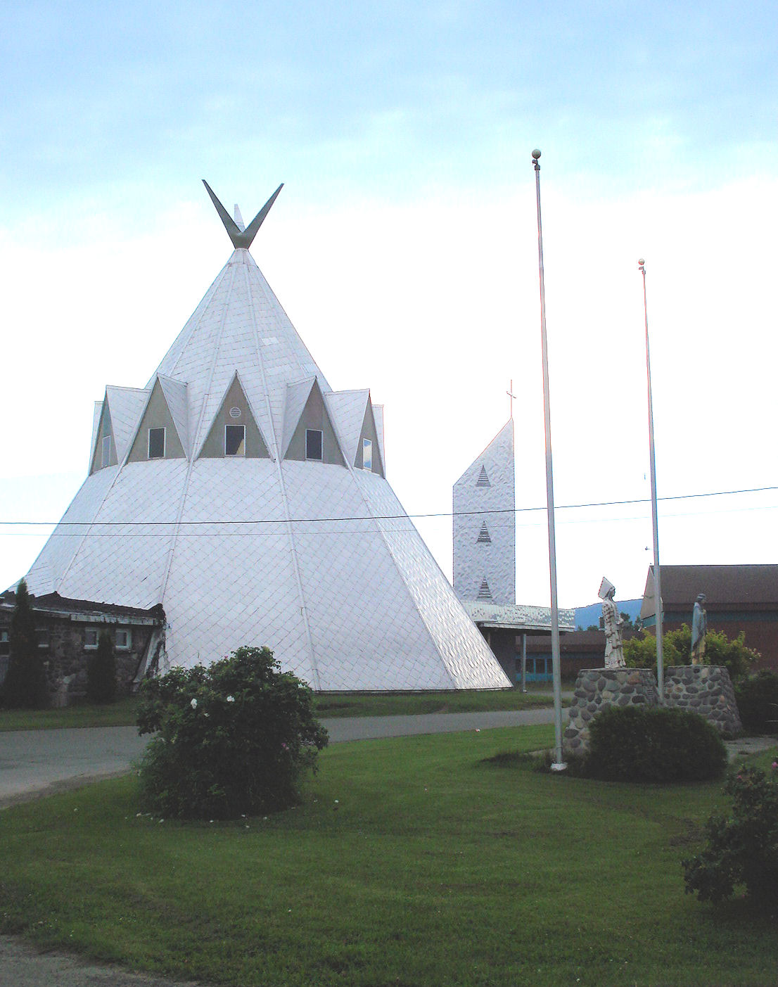 Tipee-shaped church in the Gesgapegiag Micmac Indian reserve in Quebec. Gesgapegiag is one of three Micmac communities on the Gaspé Peninsula and one of two located on the Bay of Chaleur.